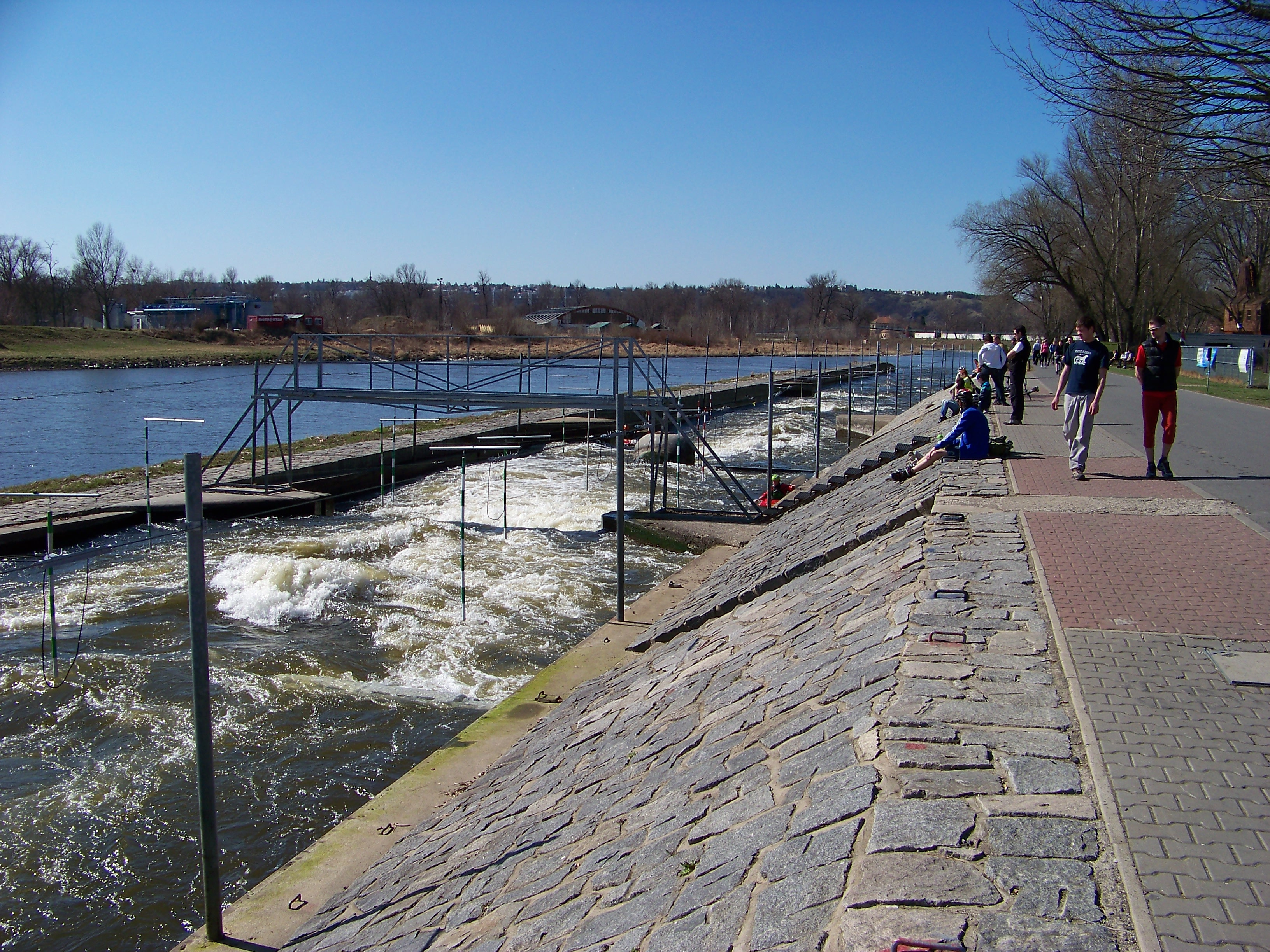 Prague-Troja, the Czech Republic. A sport canal. - OpenStreetMap(Info)